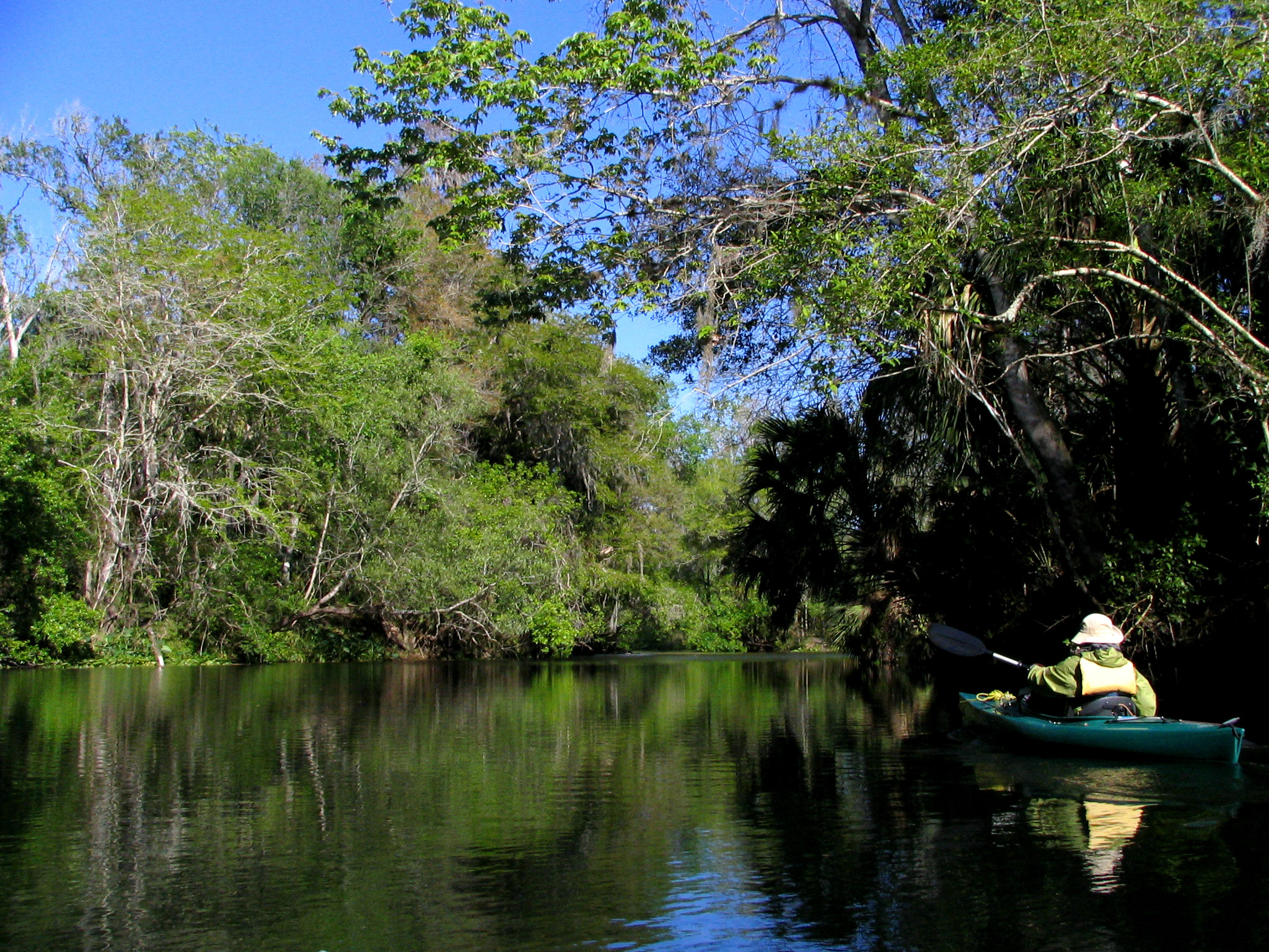 Paddling on the Hillsborough River, Hillsborough River State Park. Taken by User:Mwanner, 16 February, 2007.